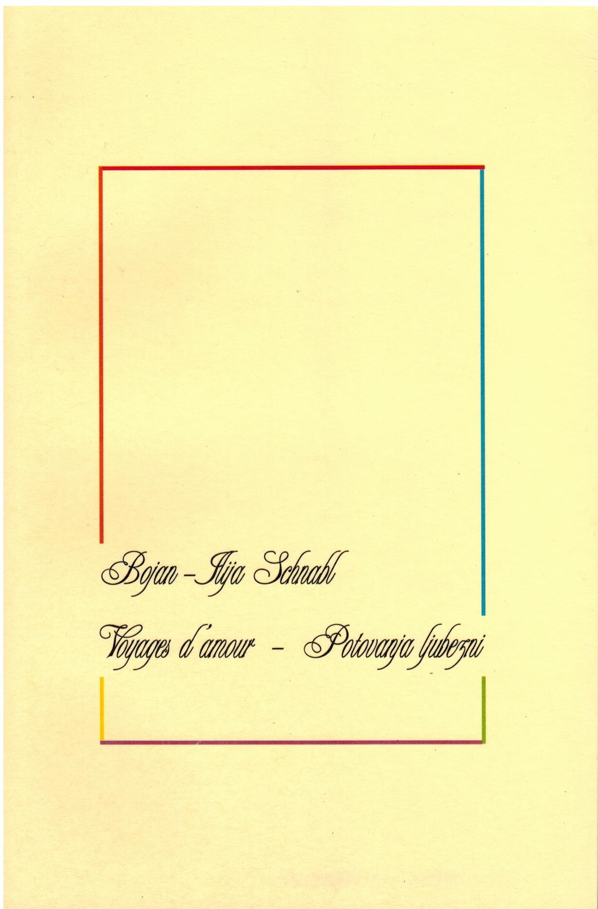 Book cover Voyage d'amour - otovanja ljubezni